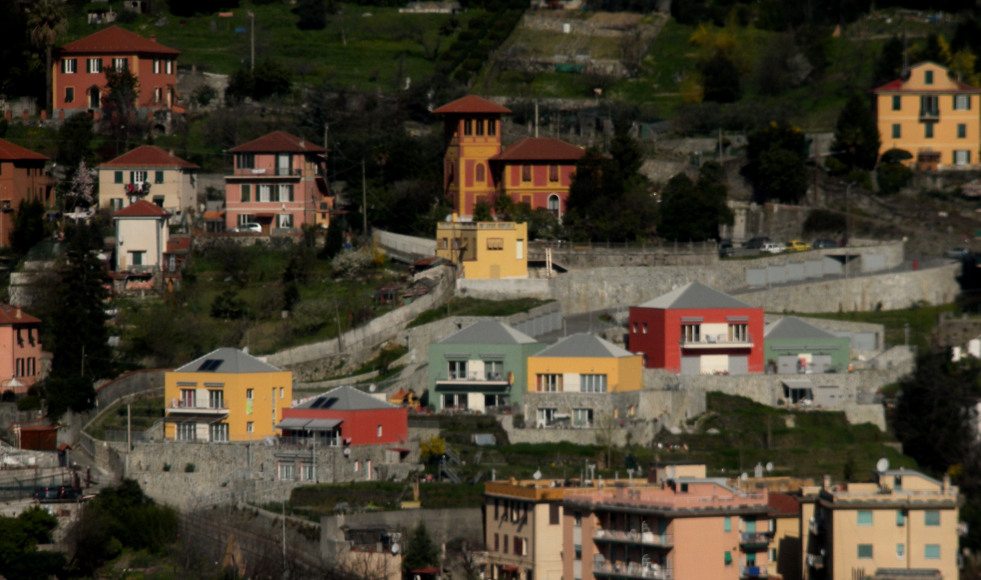 Genoa (Italy), quarter of Bolzaneto, Murta, modern houses